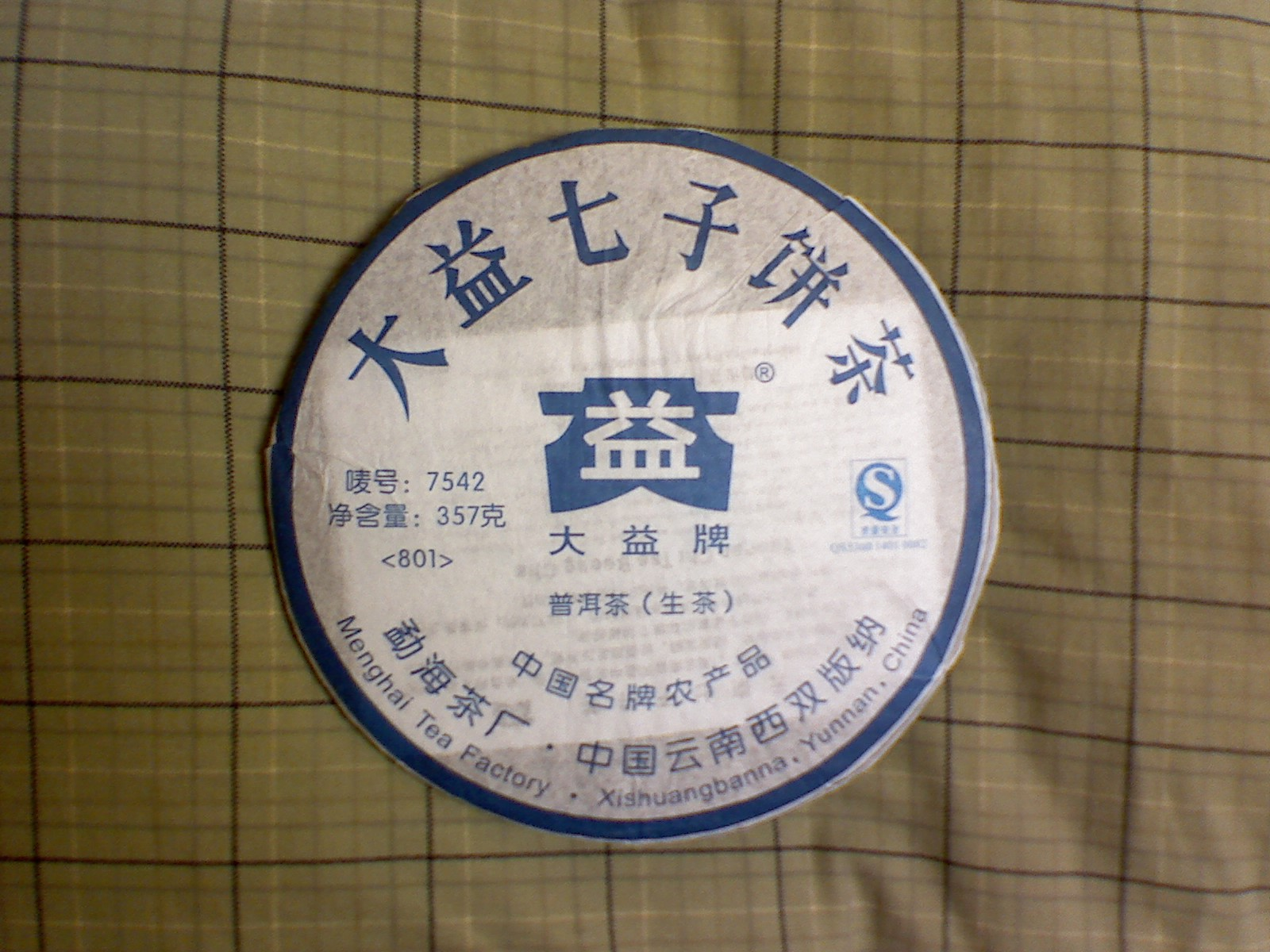 2008 (801) Menghai 7542 357g